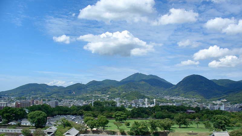 Mount Kinpo (Kinpo-zan) in Kumamoto City, Kumamoto Prefecture, Japan, as seen from the Kumamoto Castle keep tower